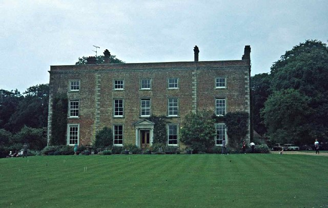 Bayfield Hall, near Holt, Norfolk. Bayfield Hall used to be a private residence, but it is now a hotel